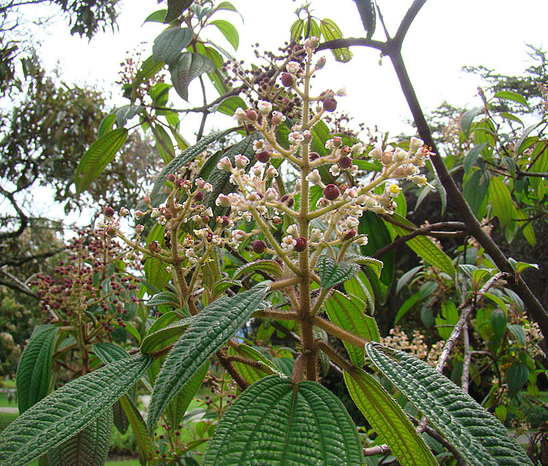 Native from southern Mexico to Peru. Bogota botanical gardens. In context at